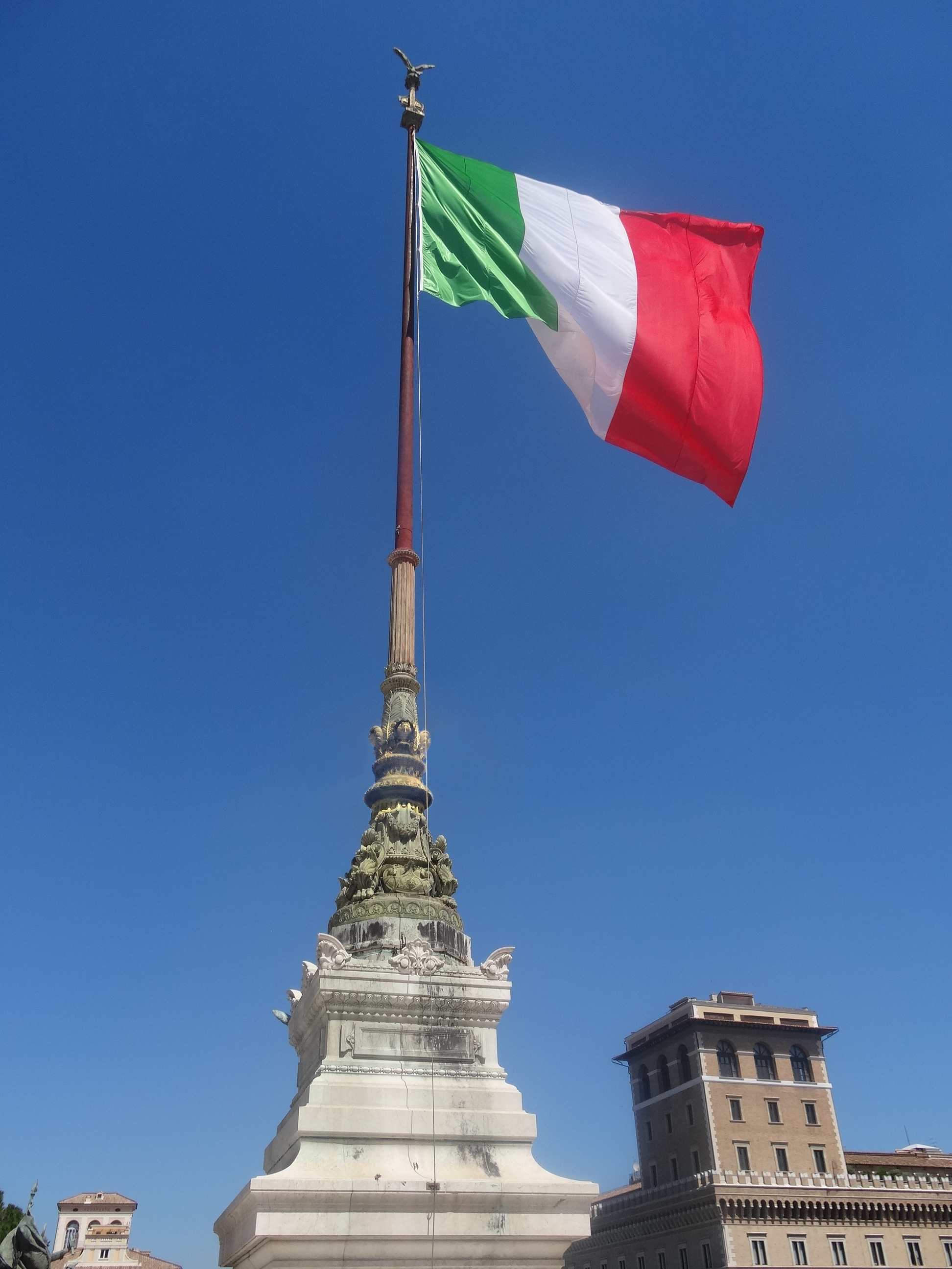 Vittoriano (Rome, 2016)